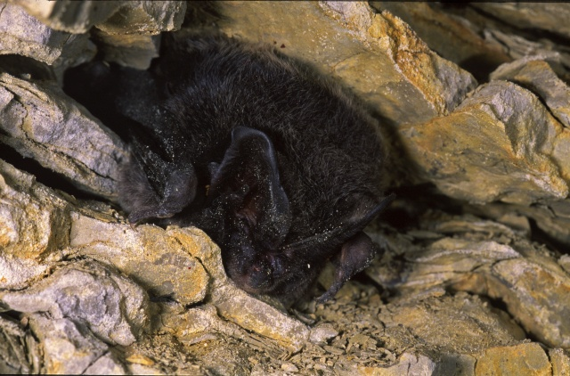 Barbastelle hybernating, Barbastella barbastellus